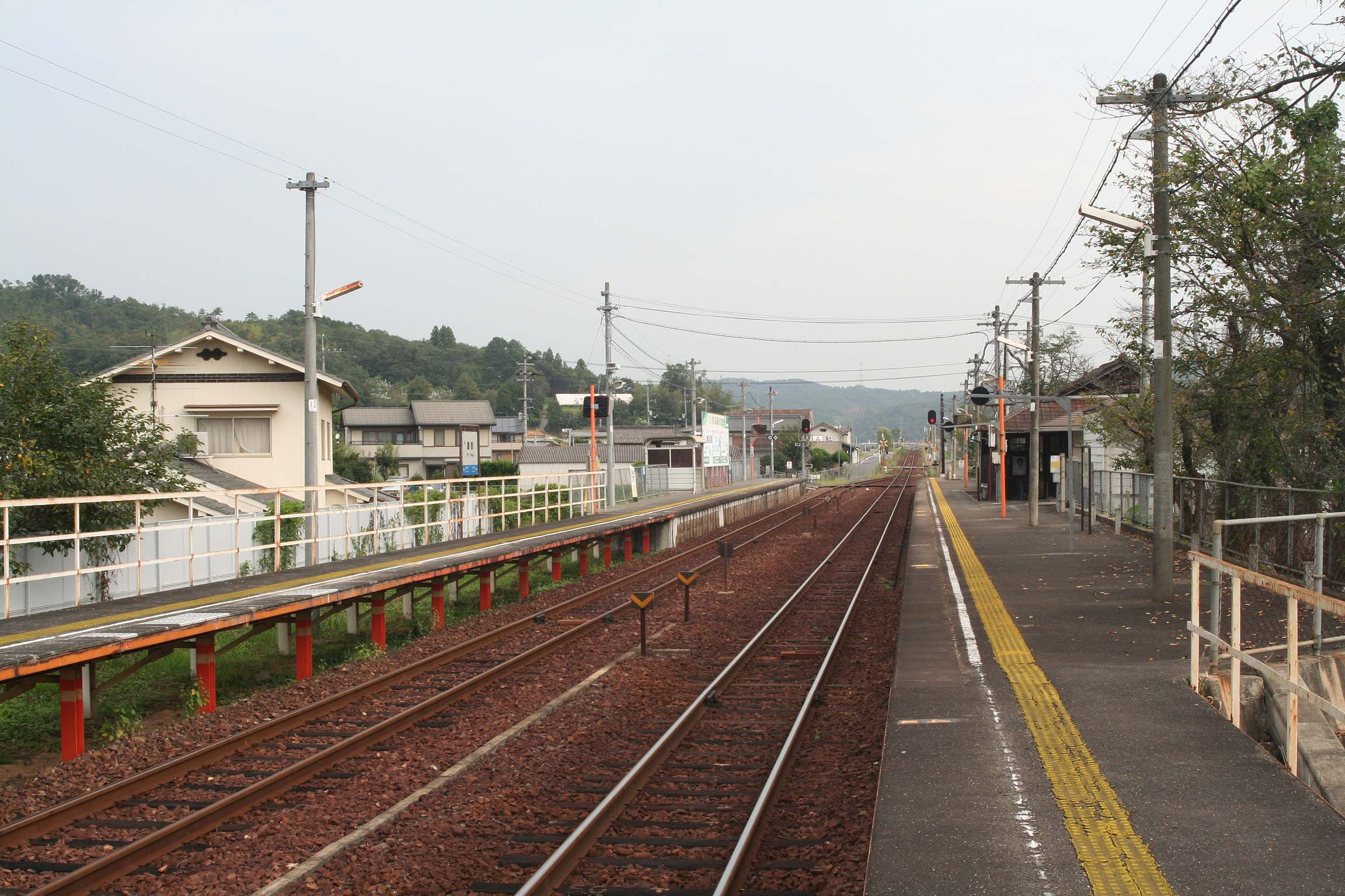 West Japan Railway Company Tsuyama Line Takebe sta enclosure